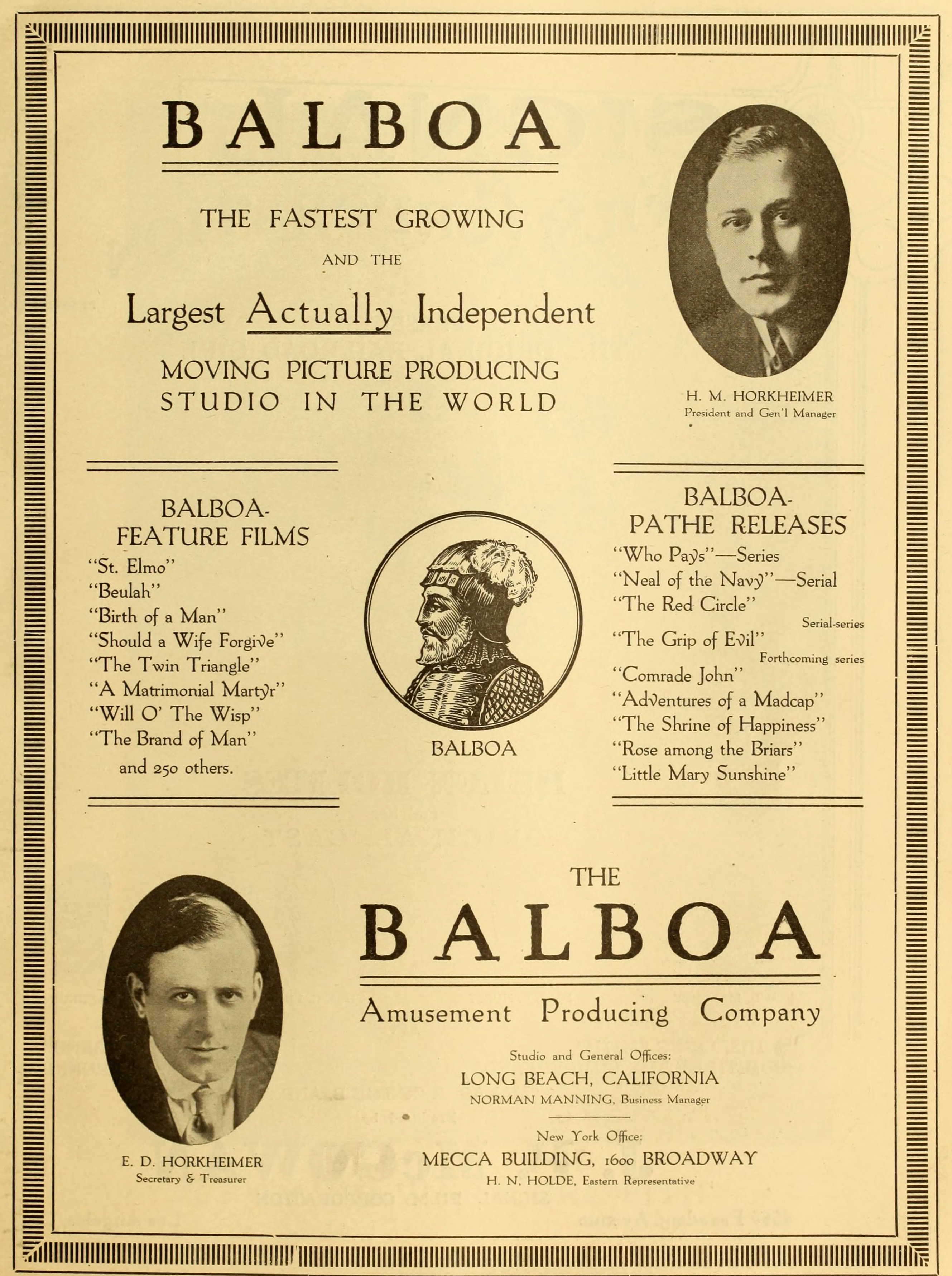 Advertisement in The Moving Picture World